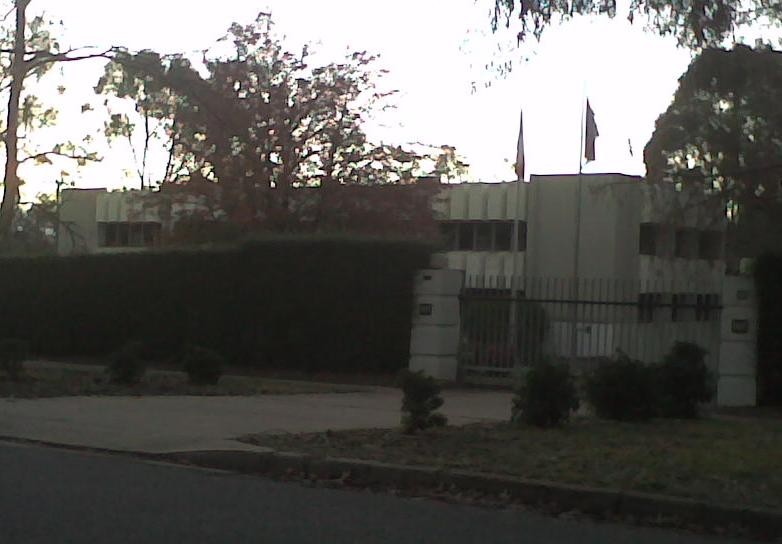 Italian Embassy in Canberra